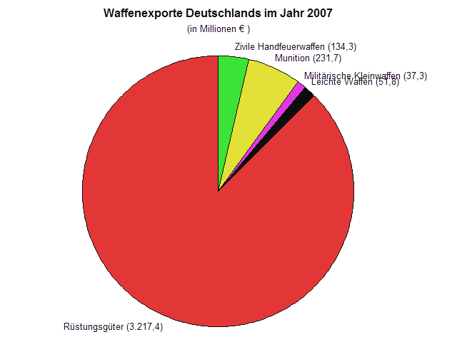 Diagram of German gun exports 2007, source German government